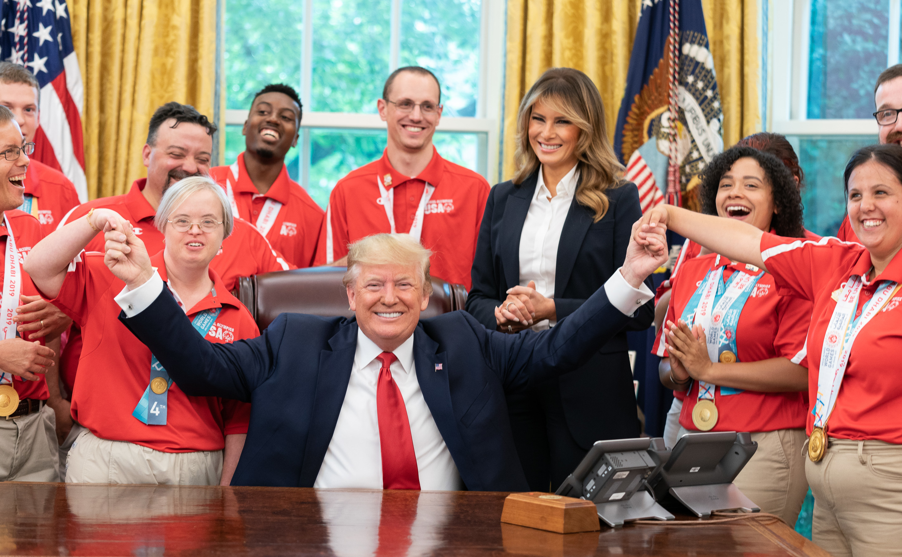 President Donald J. Trump and First Lady Melania Trump meet with members of Team USA for the 2019 Special Olympics World Games Thursday, July 18, 2019, in the Oval Office of the White House. (Official White House Photo by Shealah Craighead)